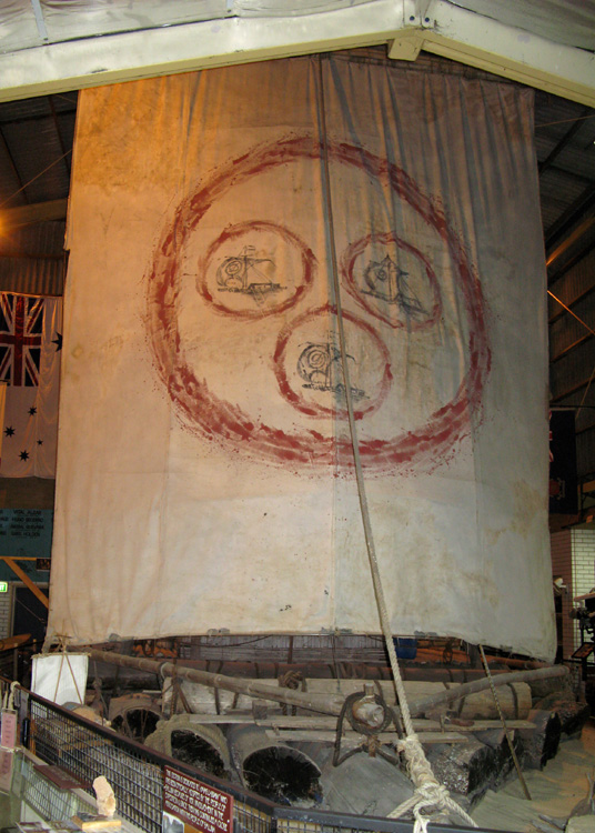 The Las Balsas expedition: a raft's sail at the Ballina Maritime Museum, in Ballina, New South Wales, Australia. The sail is a replica of a Pre-Columbian Ecuadorian style, also with its Salvador Dali design replicated. The Las Balsas expedition is first-known multiple-raft crossing of the Pacific Ocean in recent history, and the longest-known raft voyage in history.